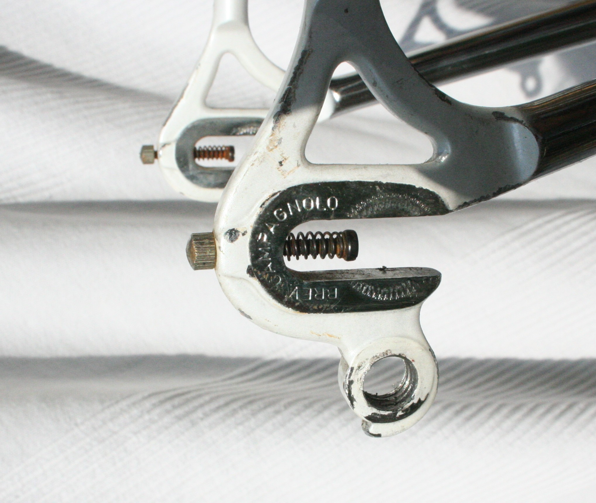 Campagnolo dropout on an italian racing bicycle